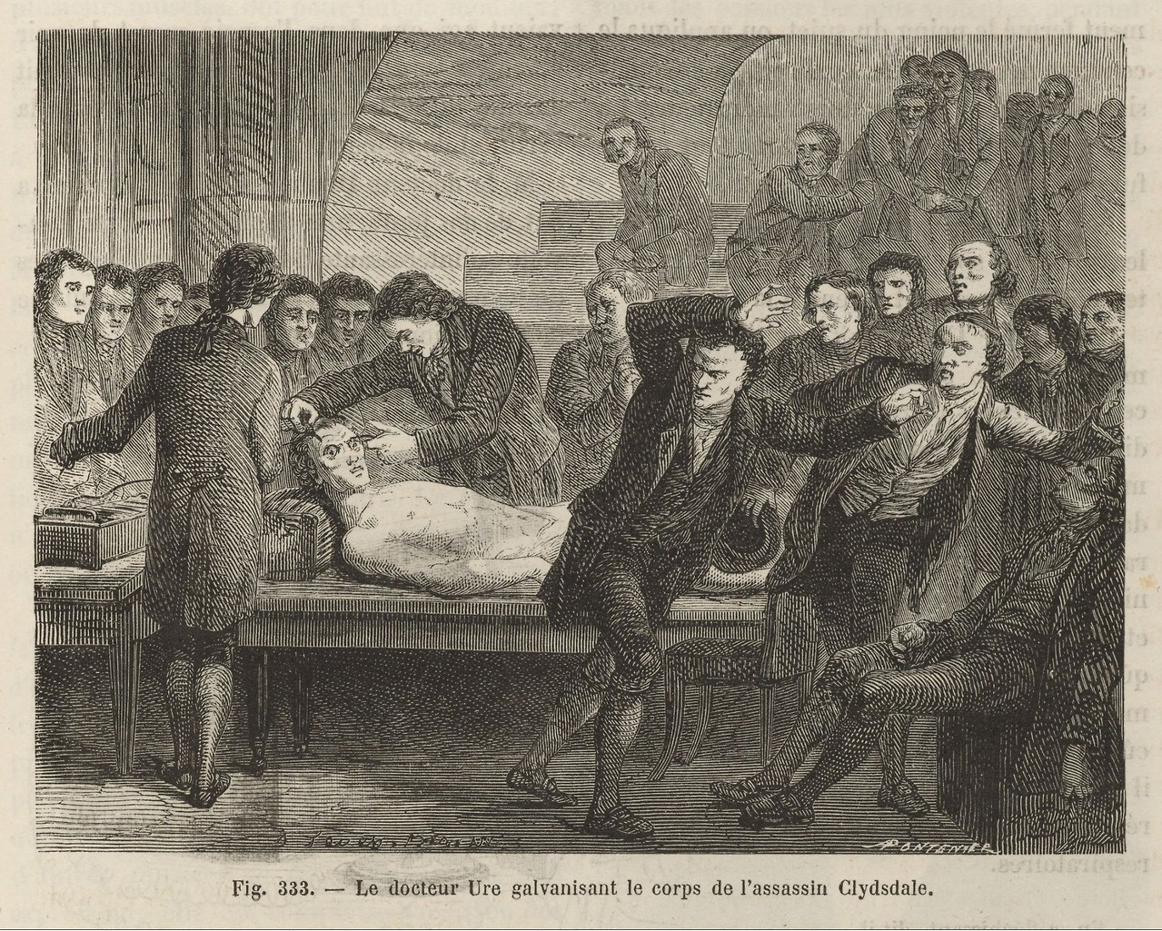 Figure 333, an illustration labeled "Le docteur Ure galvanisant le corps de l'assassin Clydsdale" from Les merveilles de la science, ou Description populaire des inventions modernes, 1867, by Louis Figuier, fig. 333. Typ 815.67.3922, Houghton Library, Harvard University